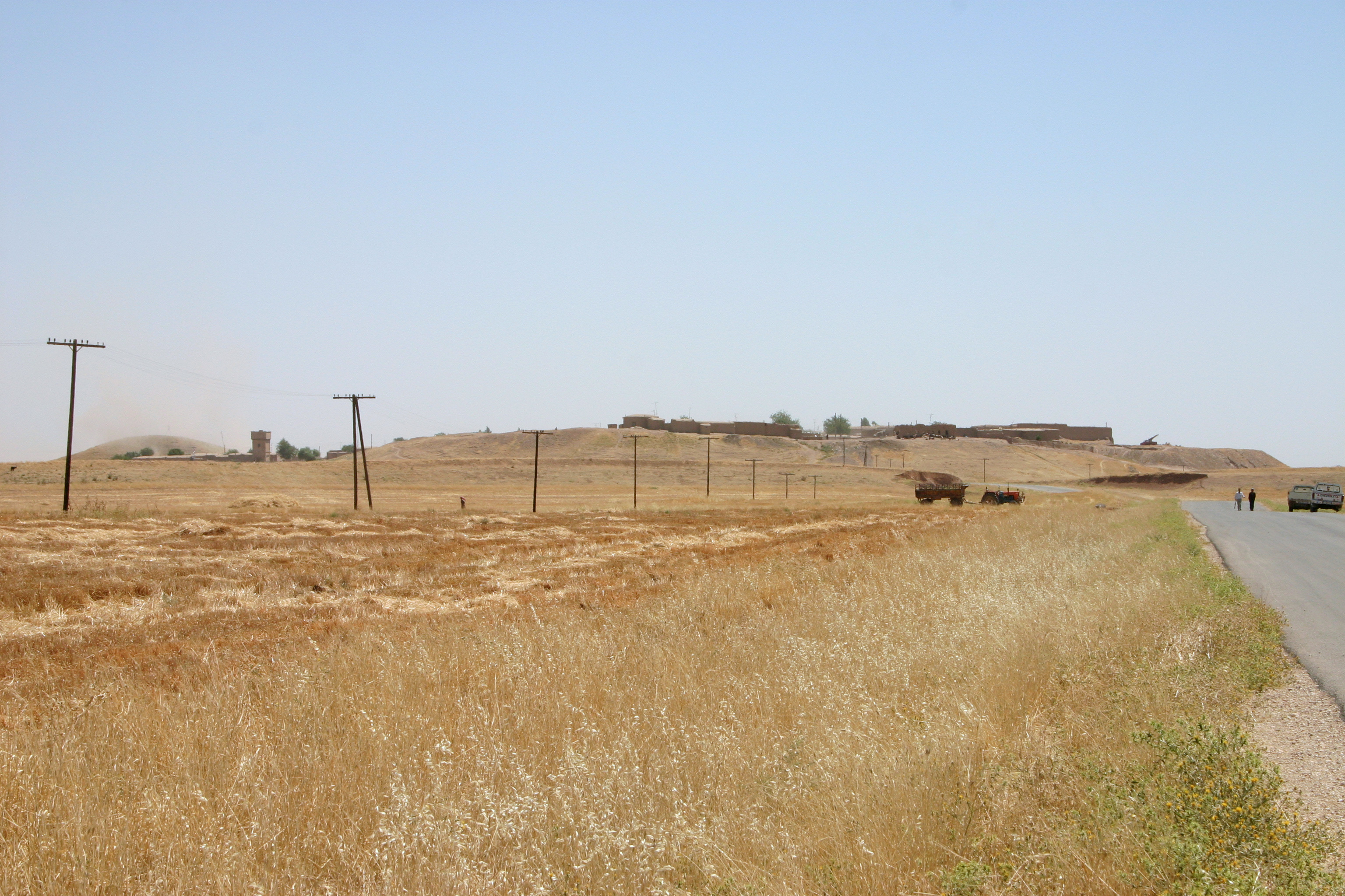 View of Tell Leilan (northeast Syria)